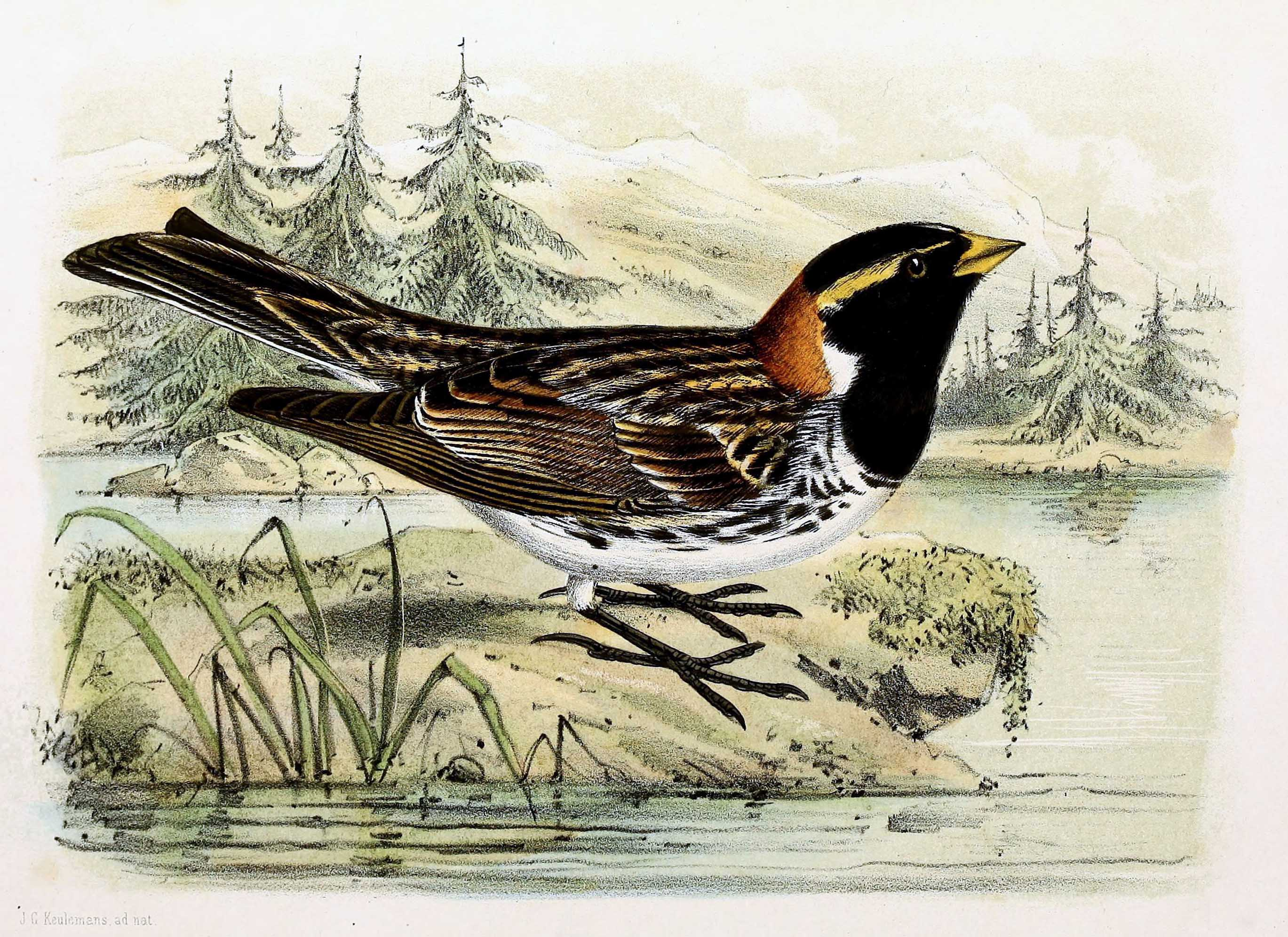 « Emberiza lapponica » = Calcarius lapponicus (Lapland longspur)